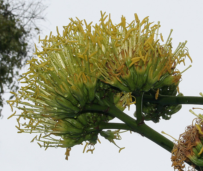 Agave sisalana (Syn. Agave rigida var. sisalana) - century plant, hemp plant, sisal, sisal agave, sisal hemp •